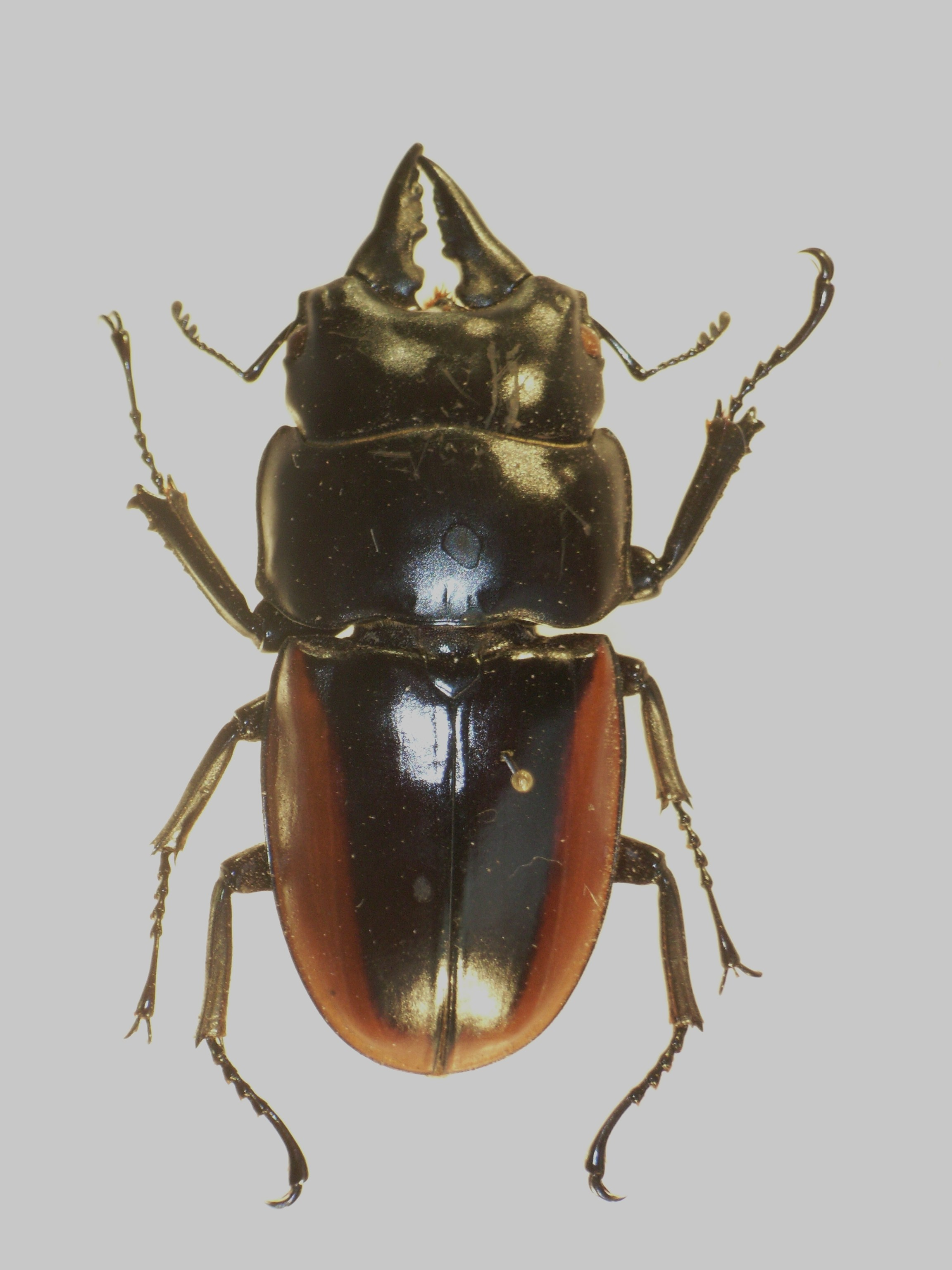 Prosopocoilus hasterti Boileau, 1912 Lucaninae Lucanidae Ex coll. Felix Stumpe